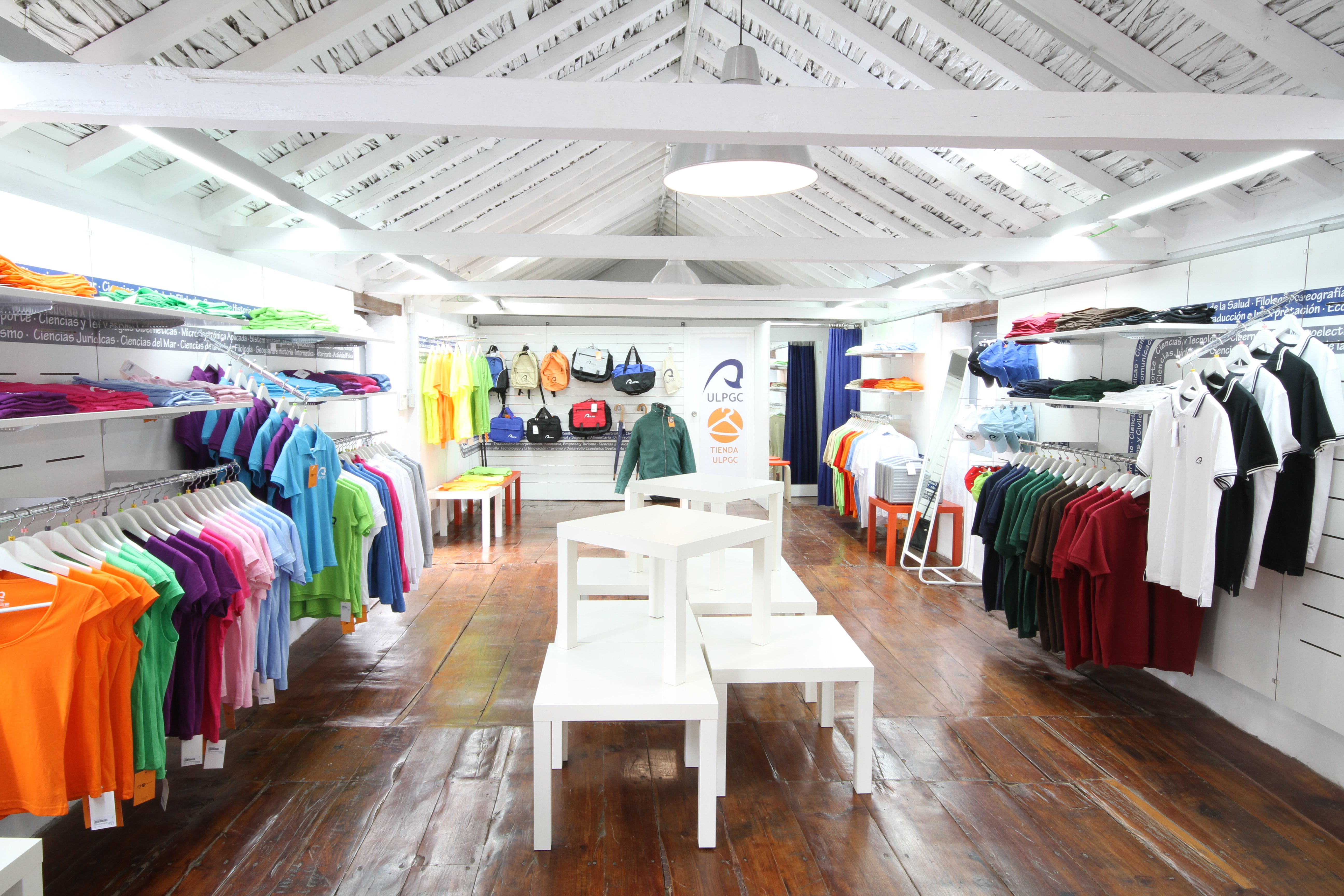 In the picture, you can see different articles with the ULPGC brand as clothes and complements. This is the first floor of Tienda ULPGC.